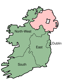 Ireland's constituency for the European Parliament election 2004